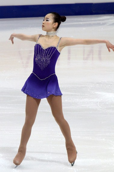 Yun Yea-Ji at the 2011 Four Continents Championships.